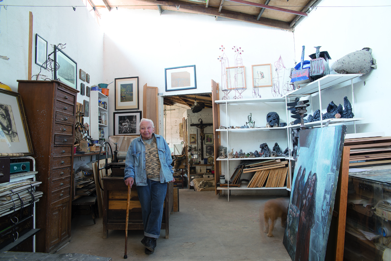 Museo Soumaya